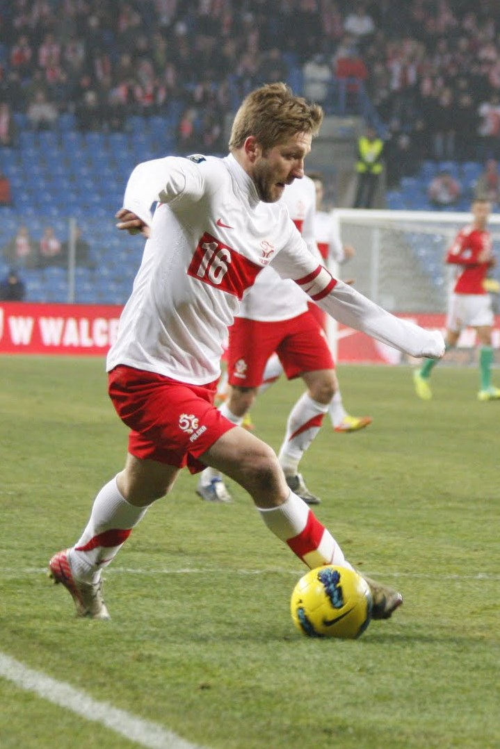 Polish football player Jakub Błaszczykowski